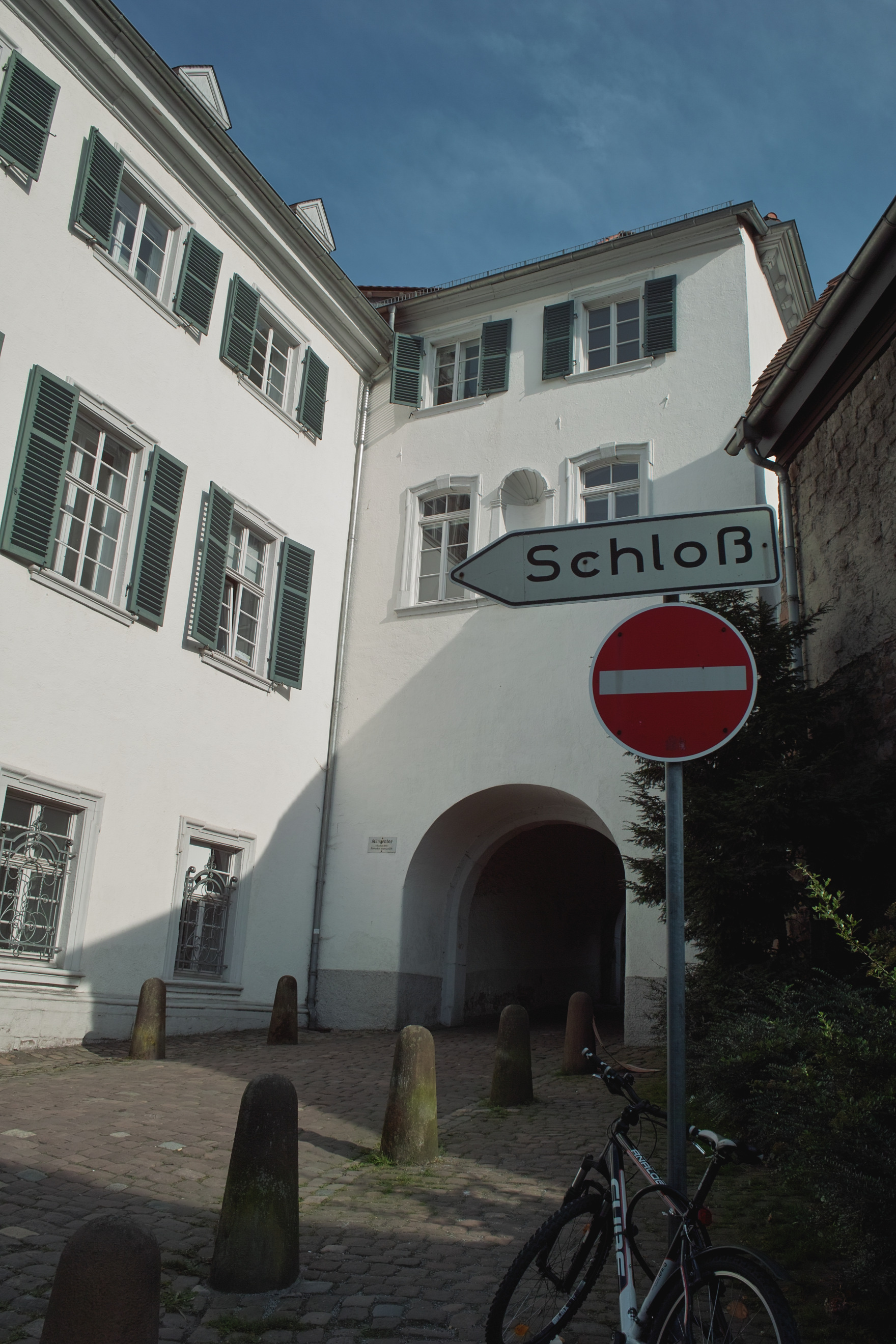 The Klingentor in Heidelberg